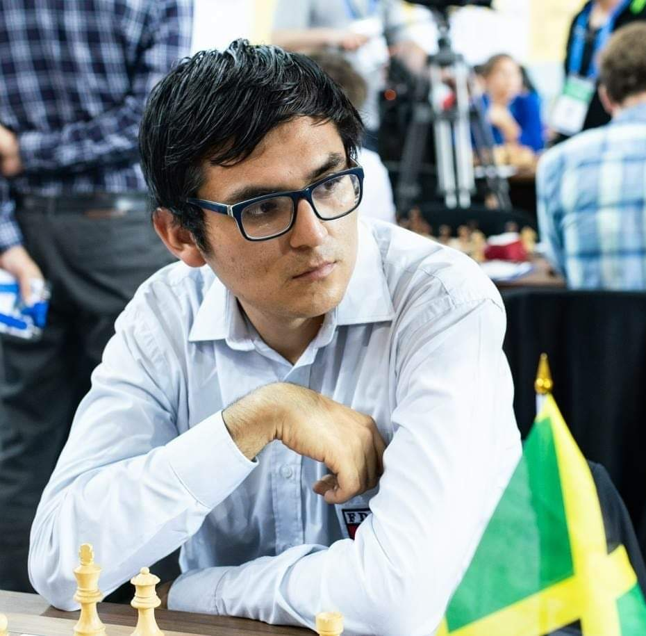 Chess Grand Master